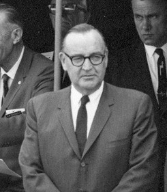 Governor of California Pat Brown in 1964